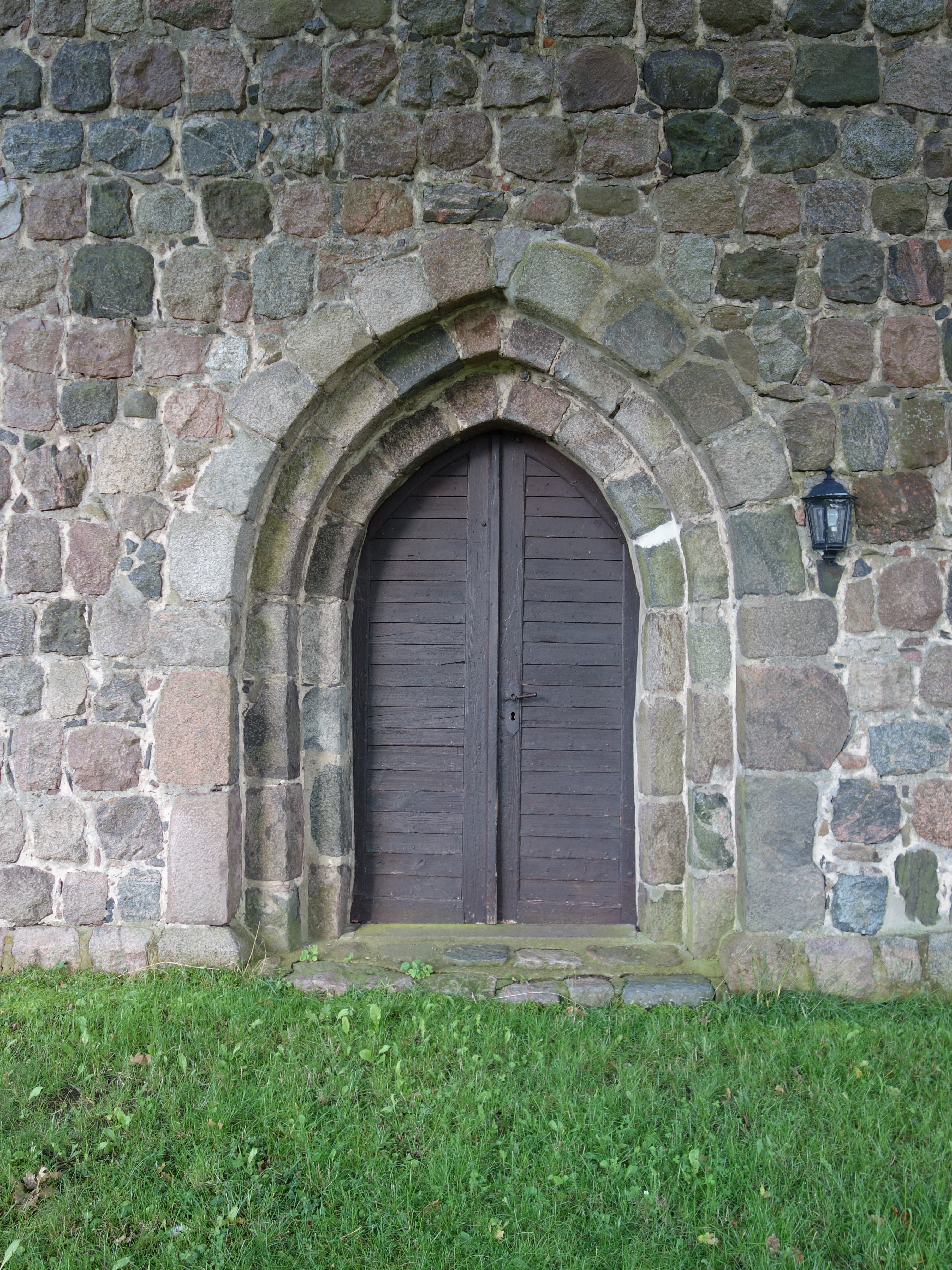 Western portal of church in Storkow, Templin municipality, Uckermark district, Brandenburg state, Germany